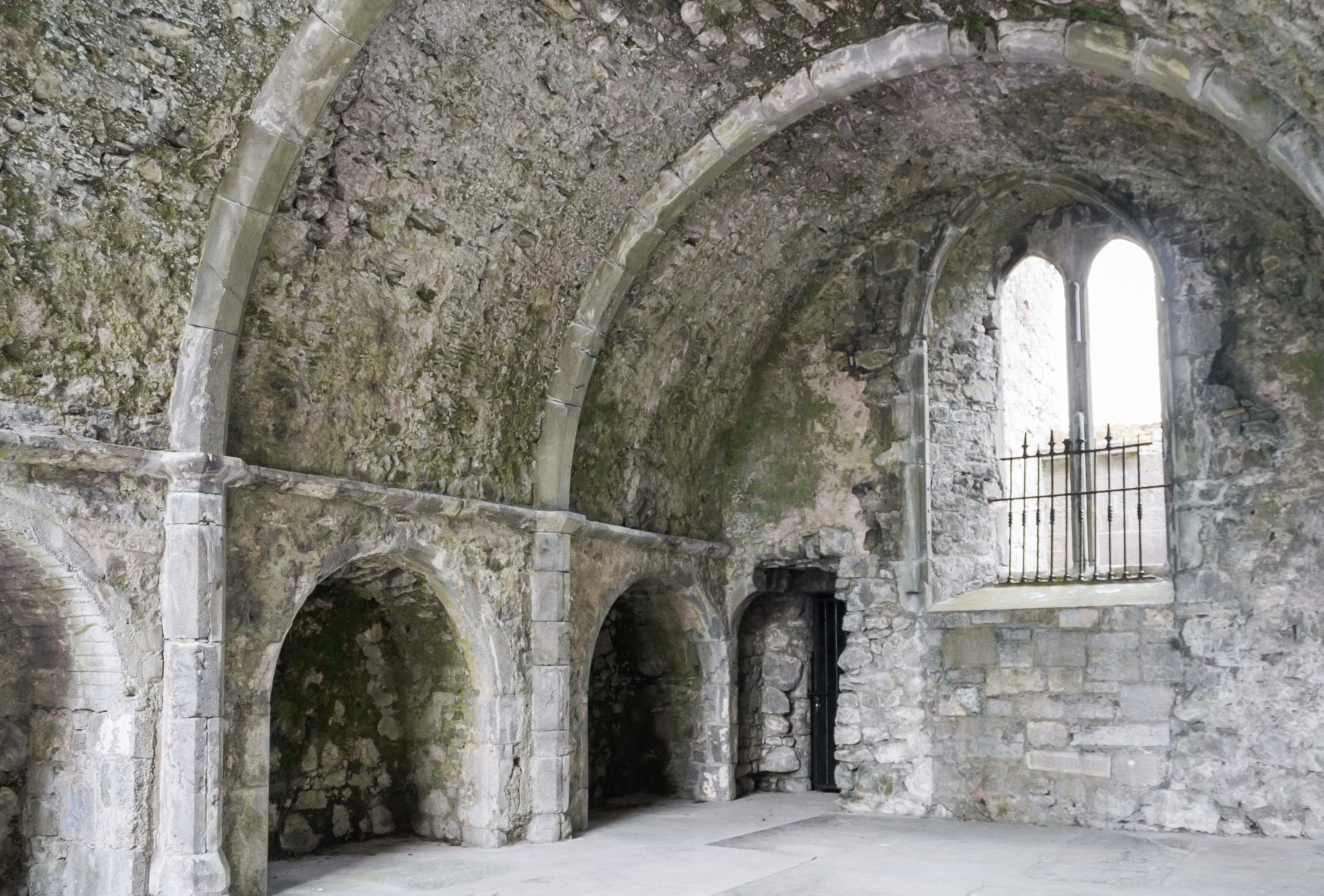 Vaulted room attached on the northern side of the choir. This space is usually expected to be used for a sacristy. However, due to its size it was also assumed to be a chapter room or even a refectory. After the reformation, it was used as court room.